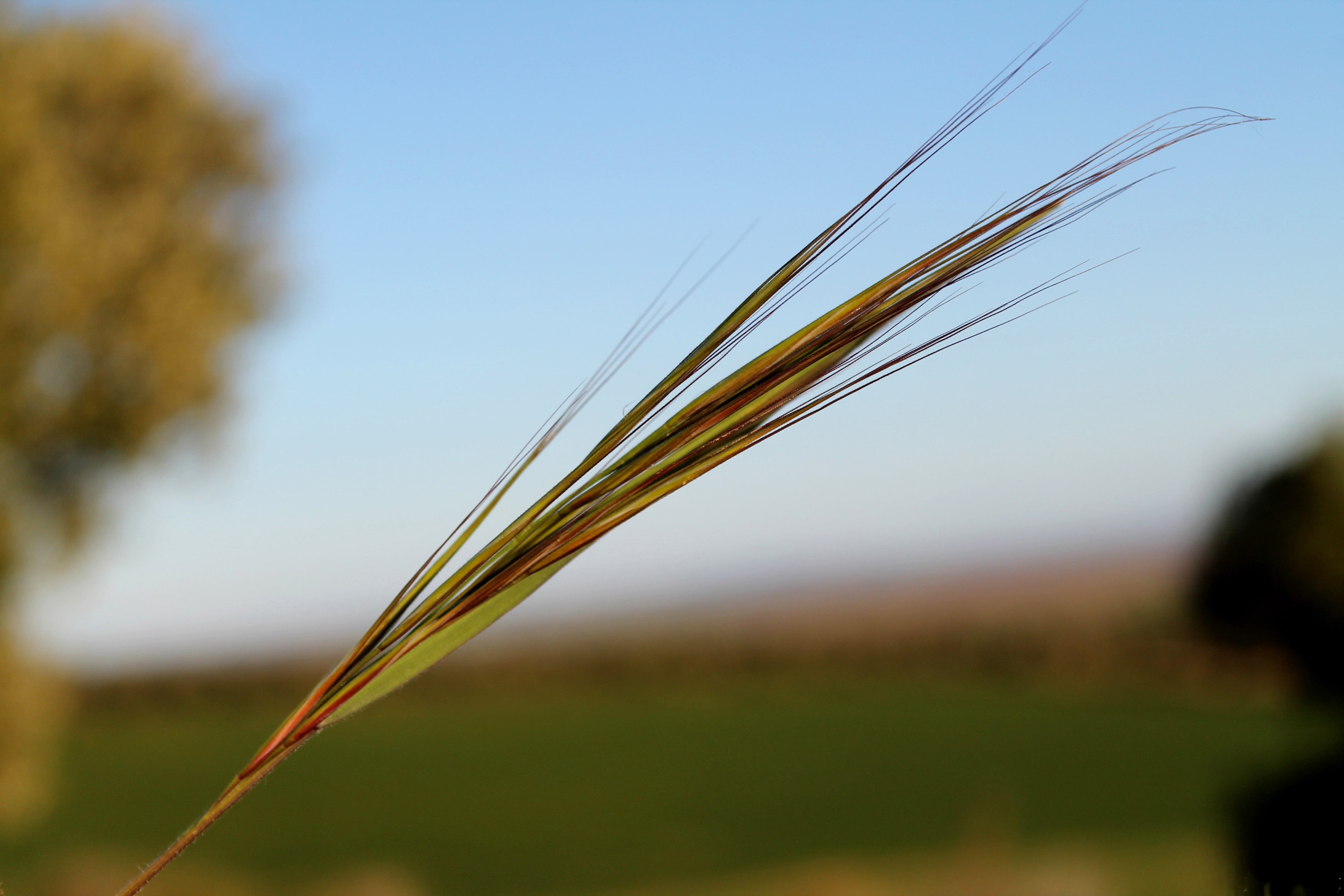 This photograph was made in Mairena del Alcor (Seville)